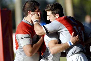 PSG rugby.